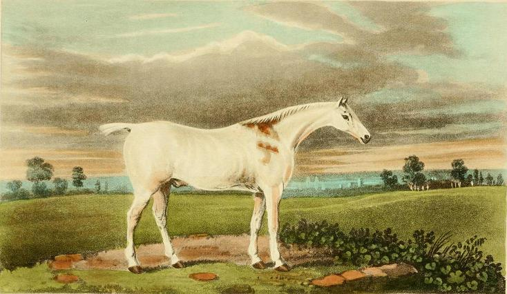 Claret - the property of Sir Edward Poore